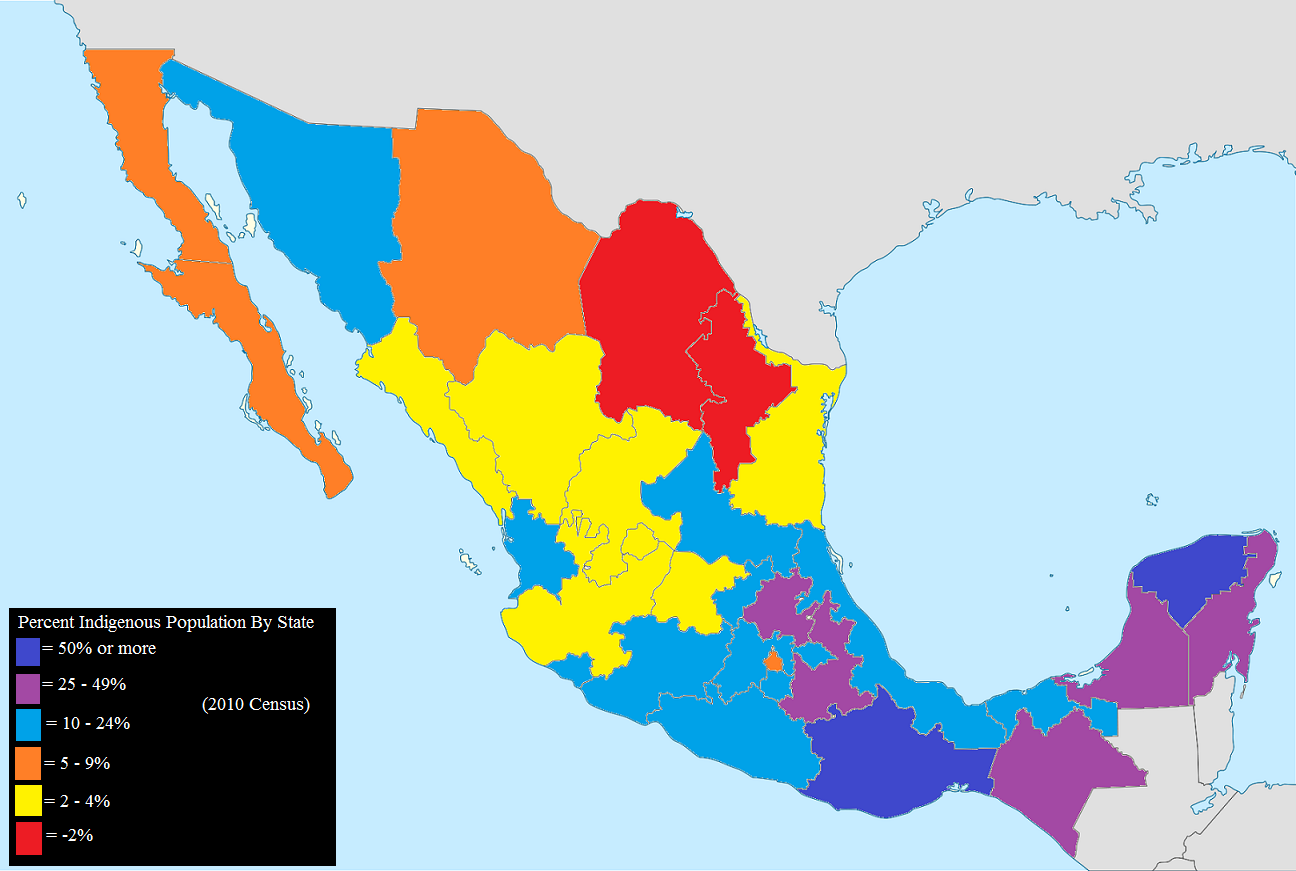 Percent Indigenous population of Mexico by state.